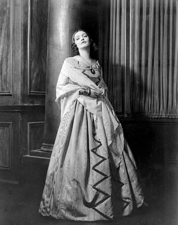 Promotional photograph of Katharine Cornell in the Broadway production of The Barretts of Wimpole Street